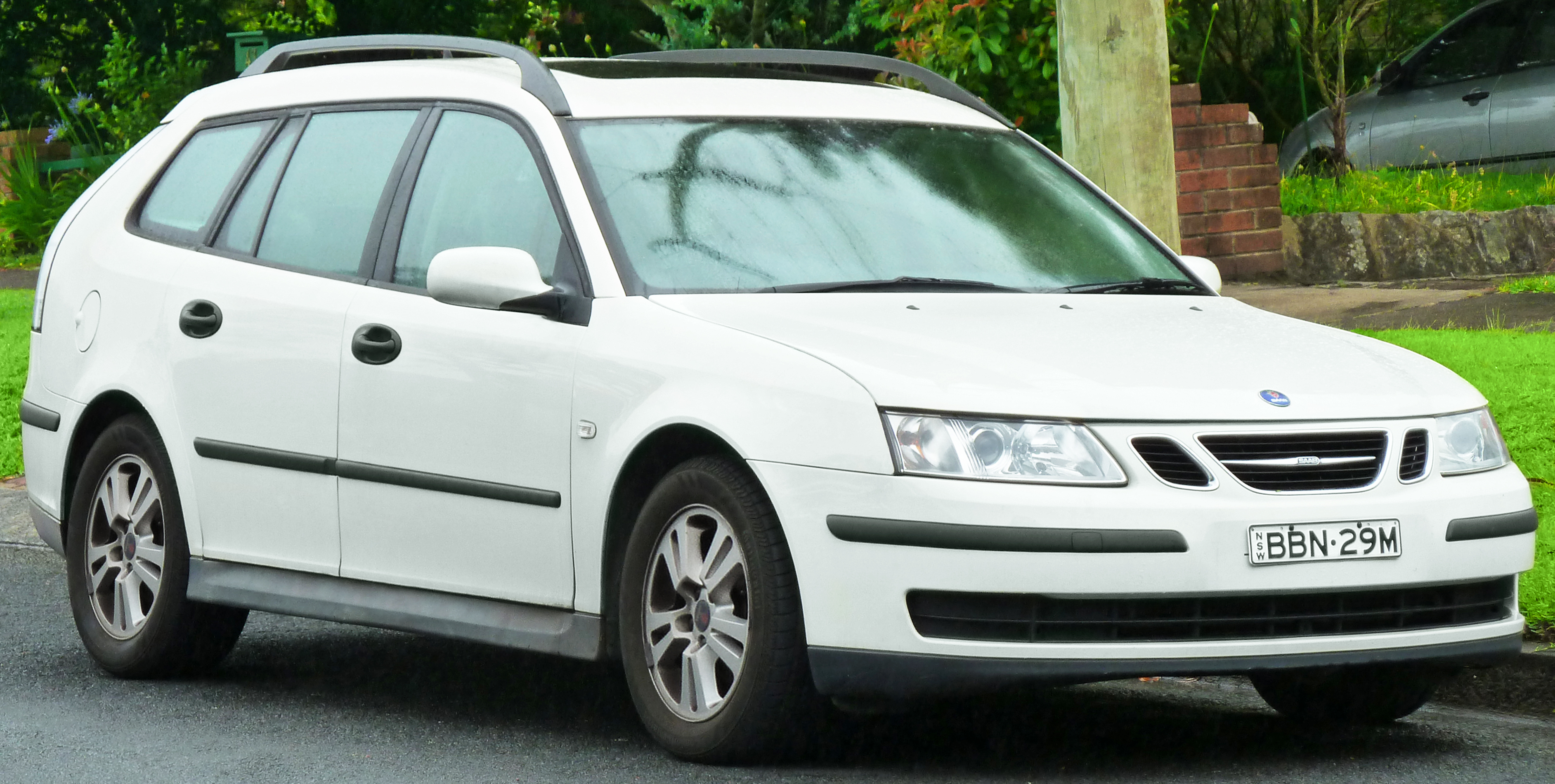 2006–2007 Saab 9-3 Linear 2.0t SportCombi. Photographed in Roseville, New South Wales, Australia.